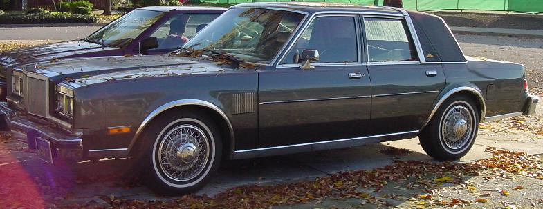 1983 Chrysler Fifth Avenue